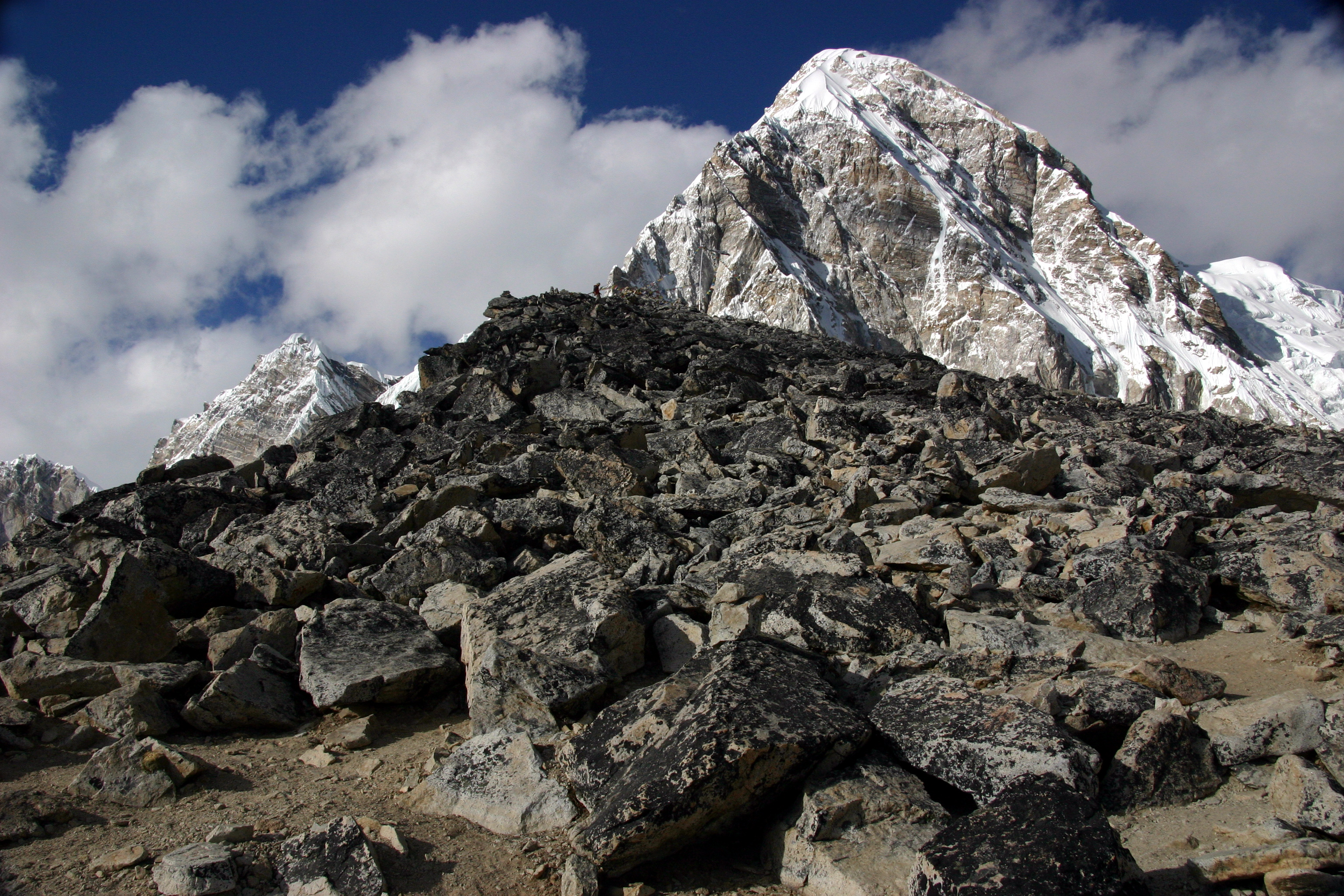 Climbing Kala Patthar